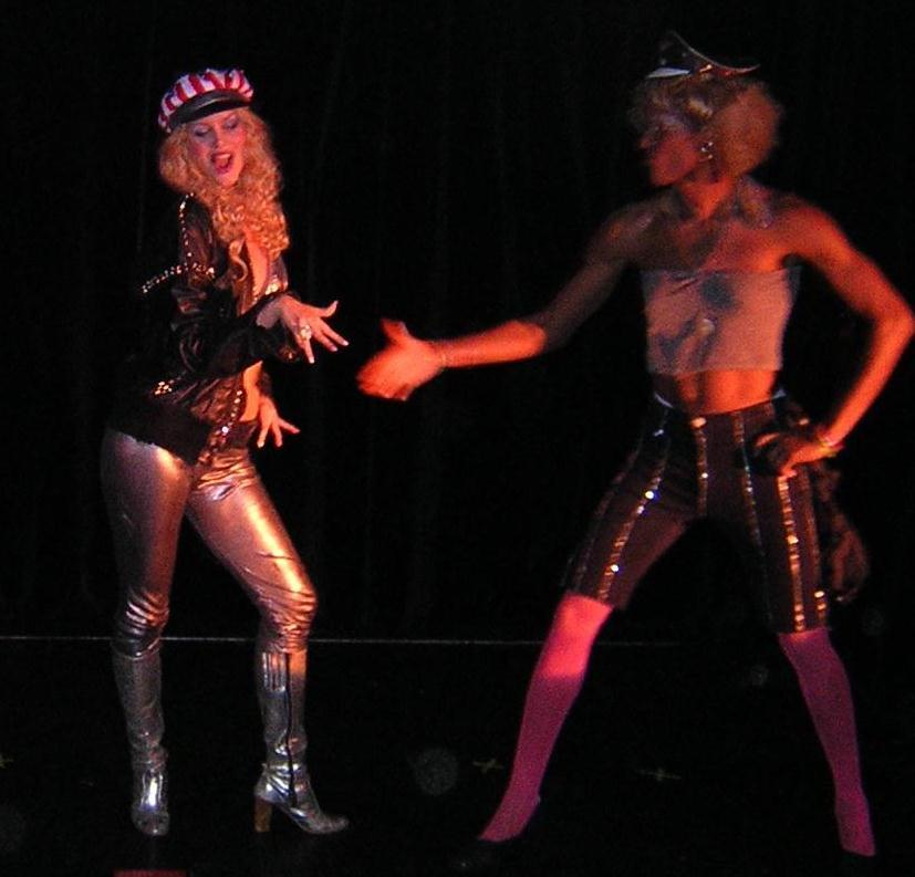 Helena Mattsson as Betty-Sue (left) does "Leader of the Pack" in Wild Side Story at the Wild Side LoungePlace: Kungsgatan 50, Stockholm, Sweden